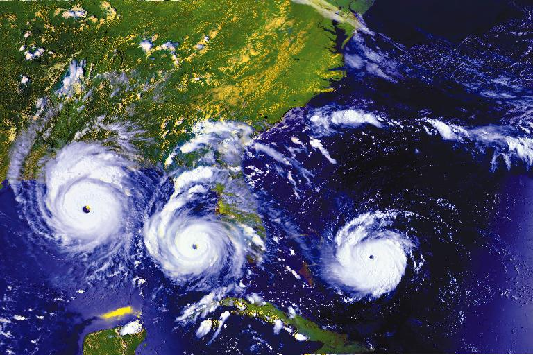 Time lapse collage of satellite images of hurricane Andrew. Three views of Andrew on 23, 24 and 25 August 1992 as the hurricane moves East to West.